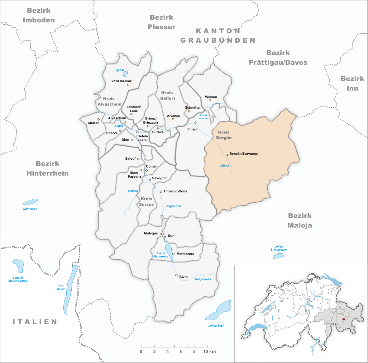 Municipality Bergün Bravuogn